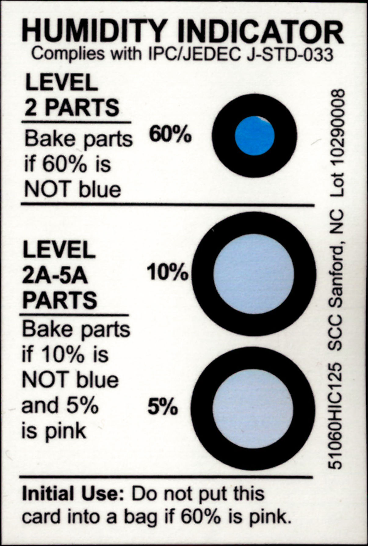 humidity indicator, original size: 60 by 85 mm, taken from a recently opened sealed bag (with silica gel).